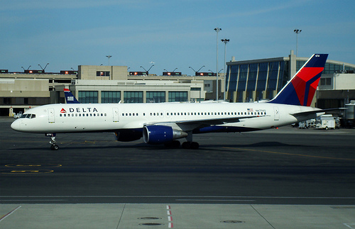 Ex-Song N6714Q on its way to the gate.